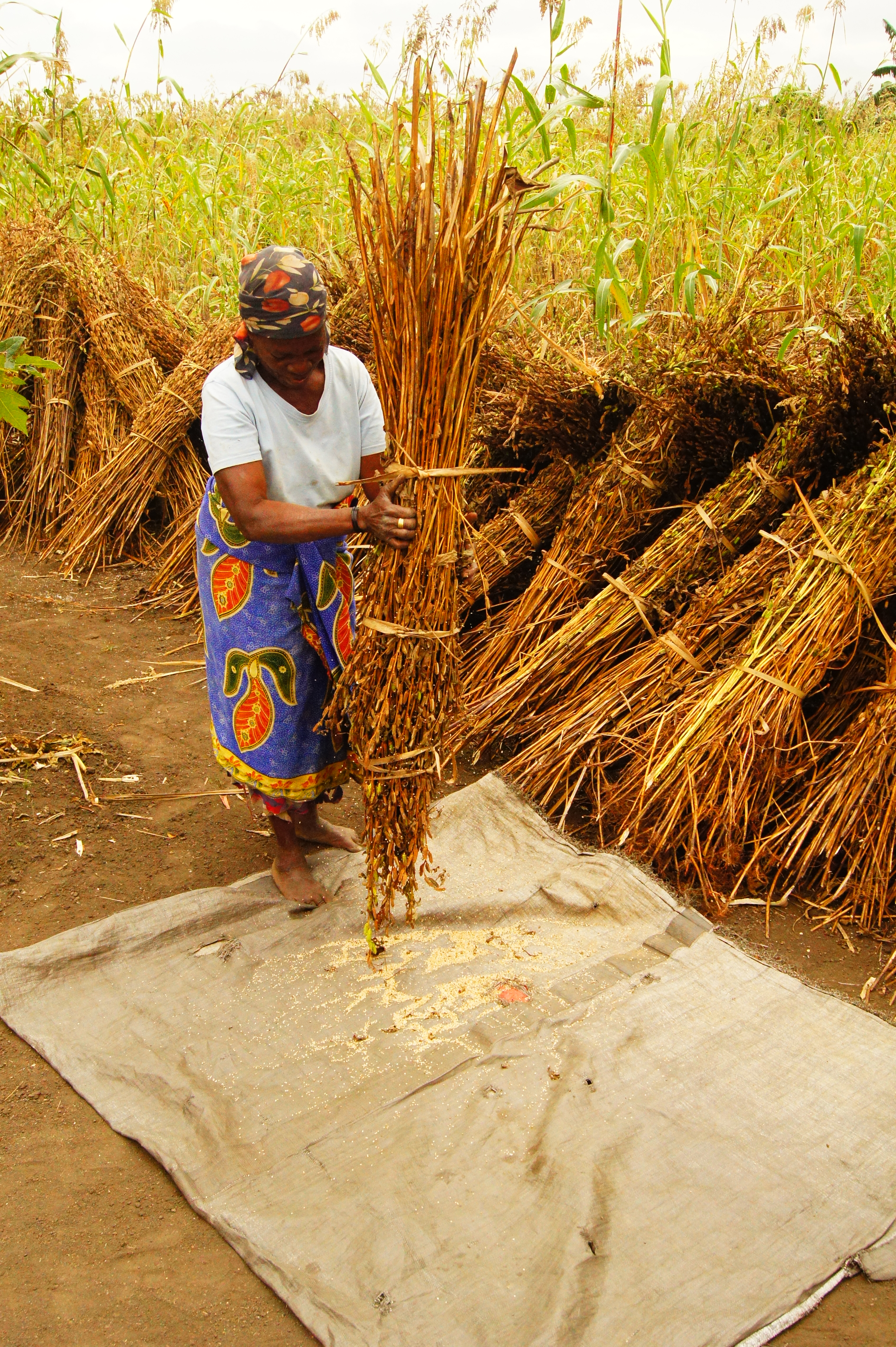 A lady from Mozambique harvests sesame seeds This is an image of Cultural Fashion or Adornment from Mozambique